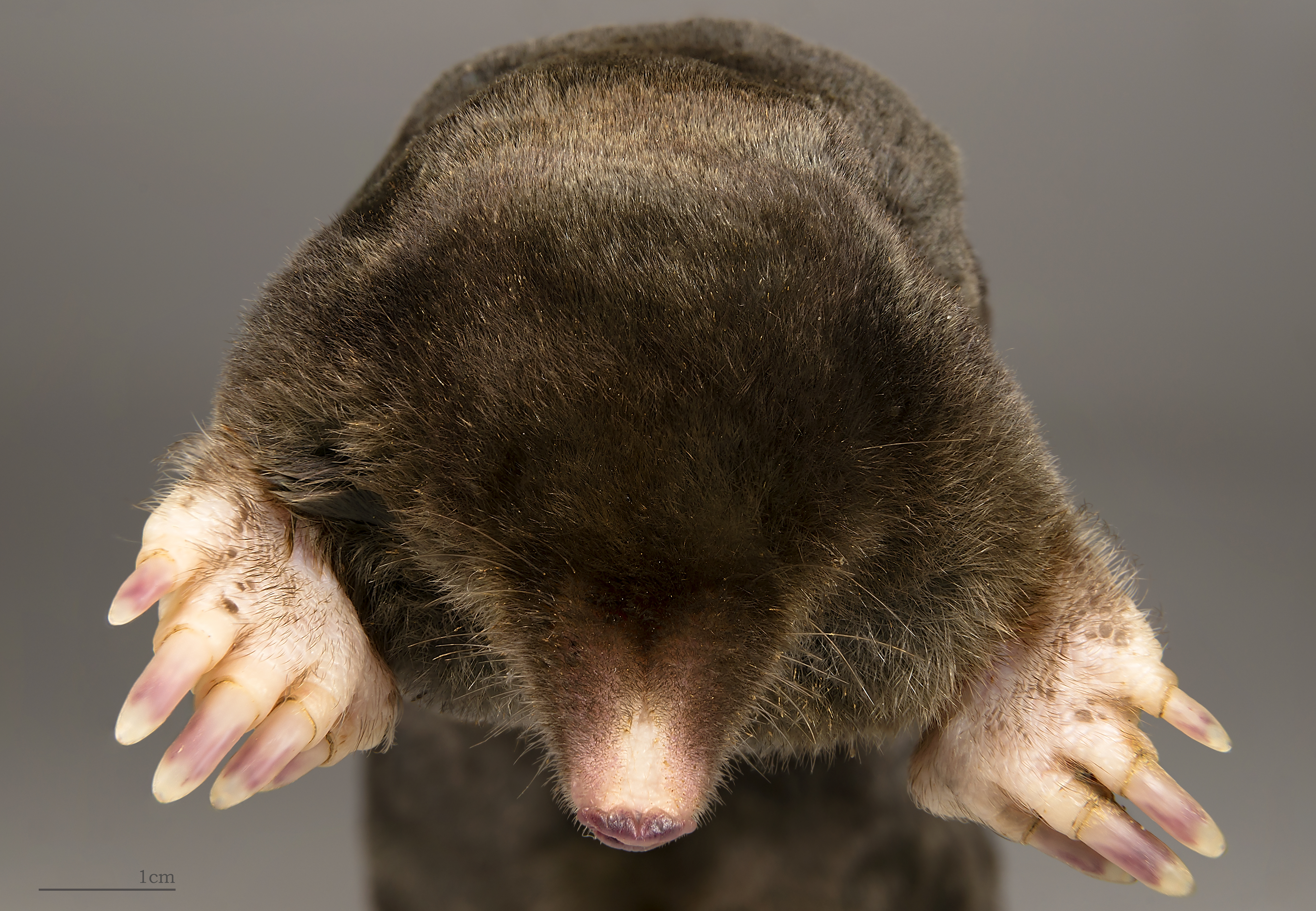 European Mole - Portrait